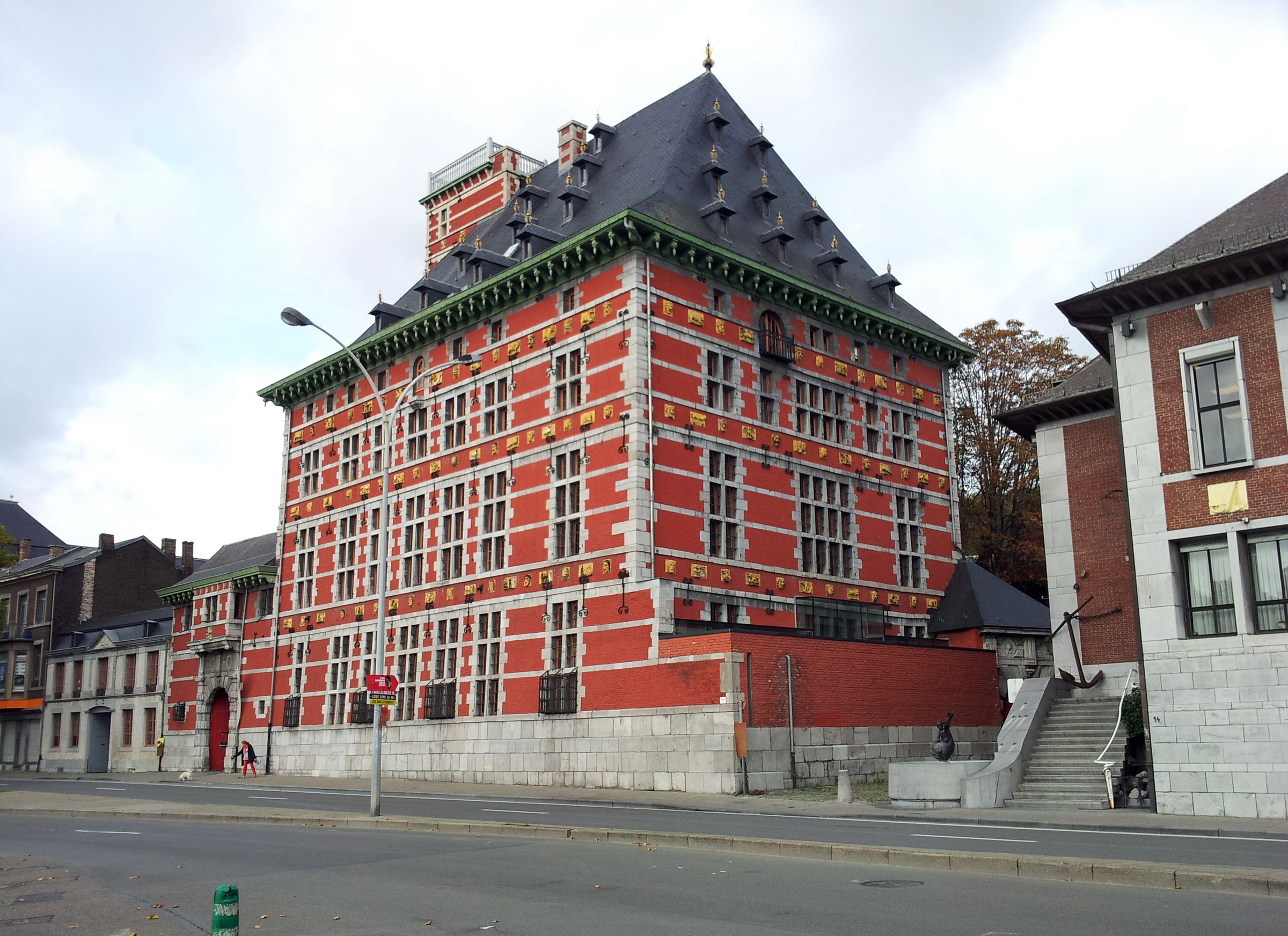 Liège, Belgium. View of the Palais Curtius, an early 17th-century merchant's mansion in Mosan Renaissance style, now the core building of the museum Grand Curtius.